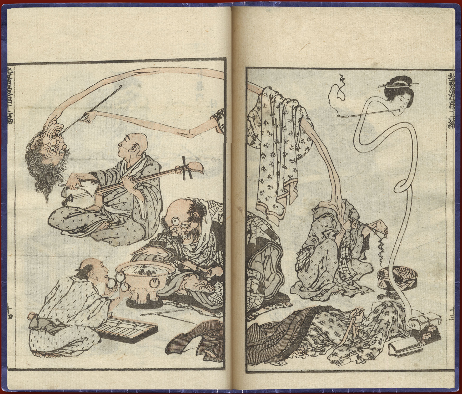 Page from "Hokusai Manga" (北斎漫画)